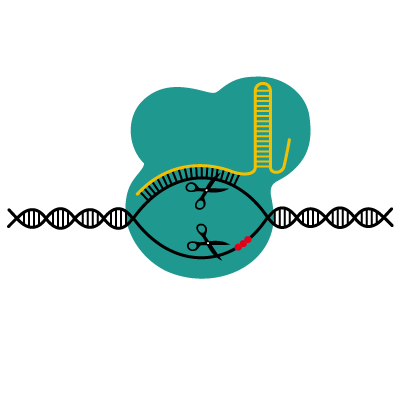 CRISPR / Cas9 (Blue)